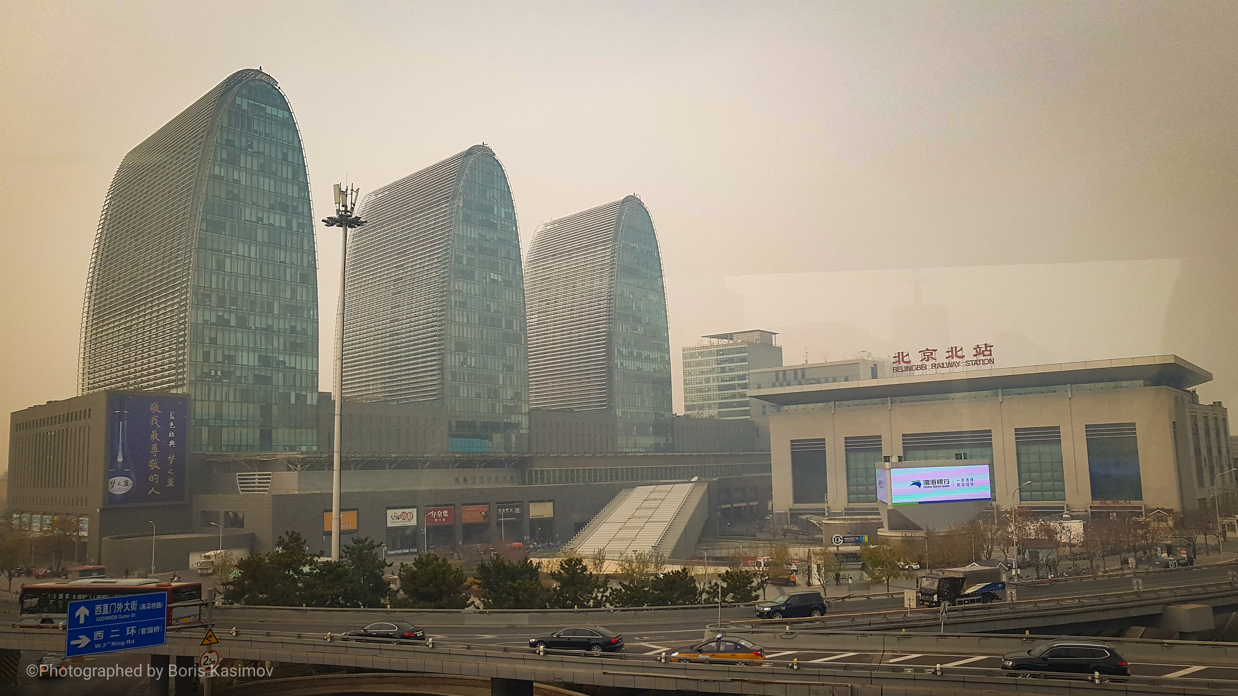 Beijing and the Great wall of China